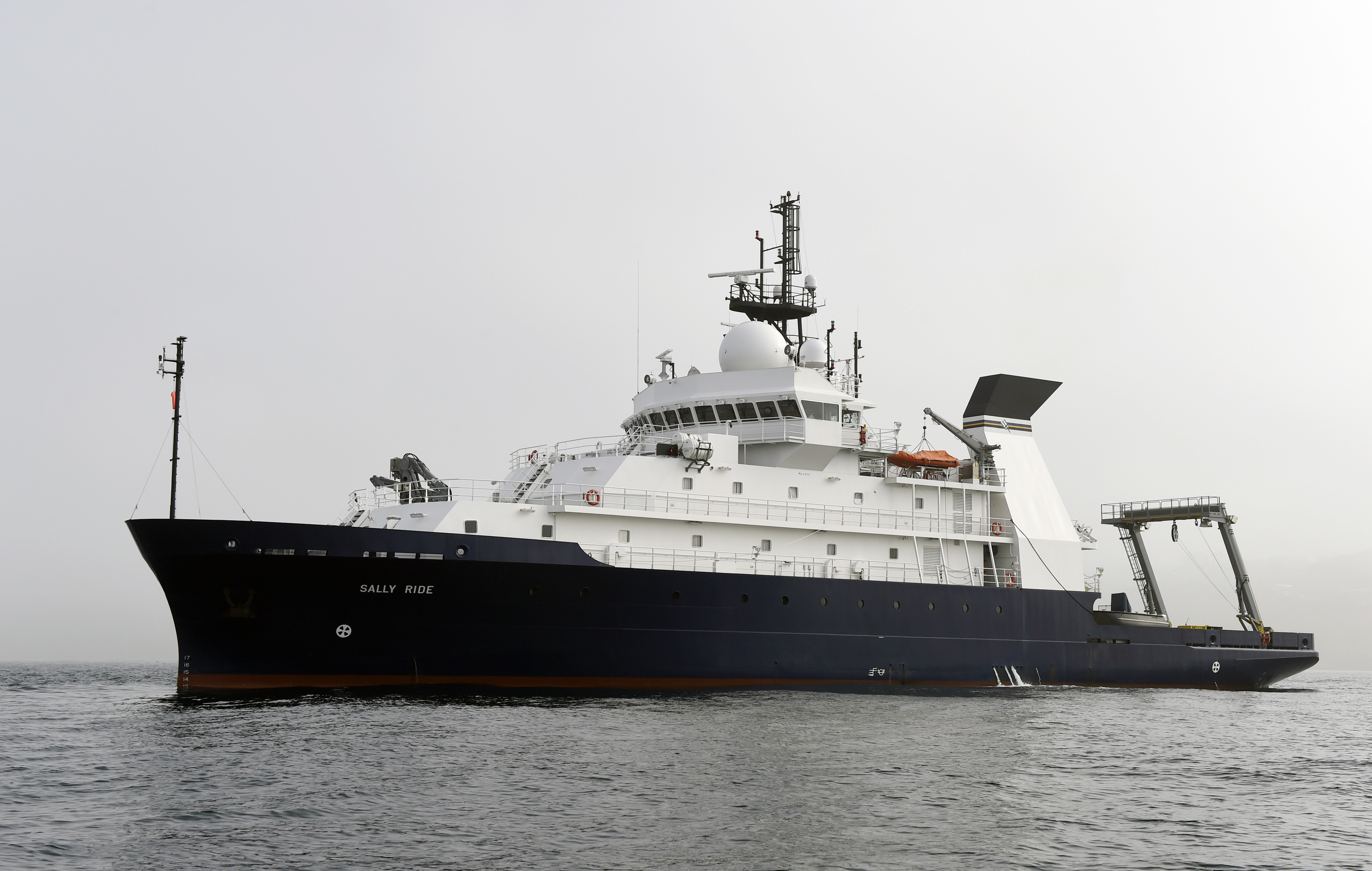 PACIFIC OCEAN (Dec. 15, 2016) The Auxiliary General Oceanographic Research (AGOR) vessel R/V Sally Ride is currently underway conducting a series of science verification cruises in order to test its installed systems and ensure its readiness for conducting future research missions. Operated by Scripps Institution of Oceanography under a charter lease agreement with the Office of Naval Research (ONR), Sally Ride has multi-beam bottom-mapping and ocean current profiling sonars, advanced meteorological sensors and satellite data transmission systems, the latest navigation and ship-positioning systems and a specially designed hull that improves sonar acoustic performance. The Navy, through ONR, has been a leader in building and providing large ships for the nation’s academic research fleet since World War II. (U.S. Navy photo by John F. Williams/Released)161215-N-PO203-134 Join the conversation: navylive.dodlive.mil